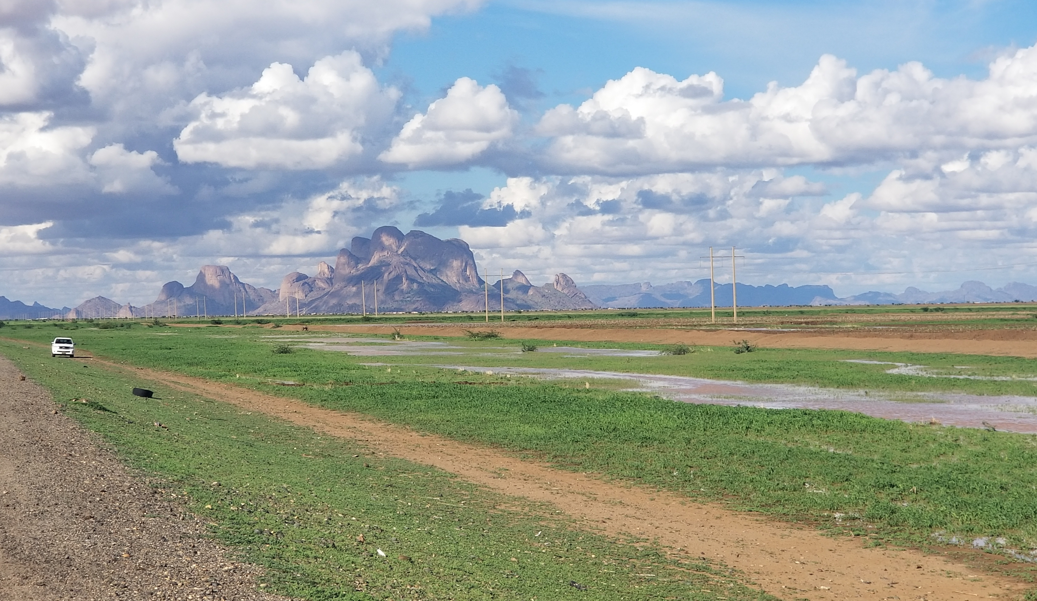 TOTEEL mountain in eastern Sudan This is an image with the theme "Africa on the Move or Transport" from: Sudan